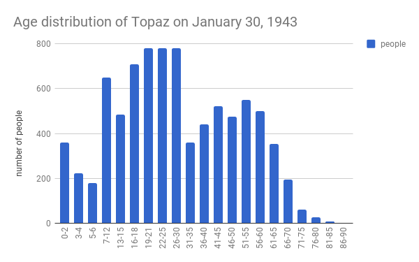 Chart showing the age distribution at Topaz Internment Center on January 30, 1943. Data comes from The Price of Prejudice and reflects a discrepency found in the original data from the January 30th issue of Topaz Times: the 35-40 age group is missing. This data was augmented with a similar chart found in Jewel of the Deseret, but that chart was missing information for the 19-21 age group. The data is probably incomplete.